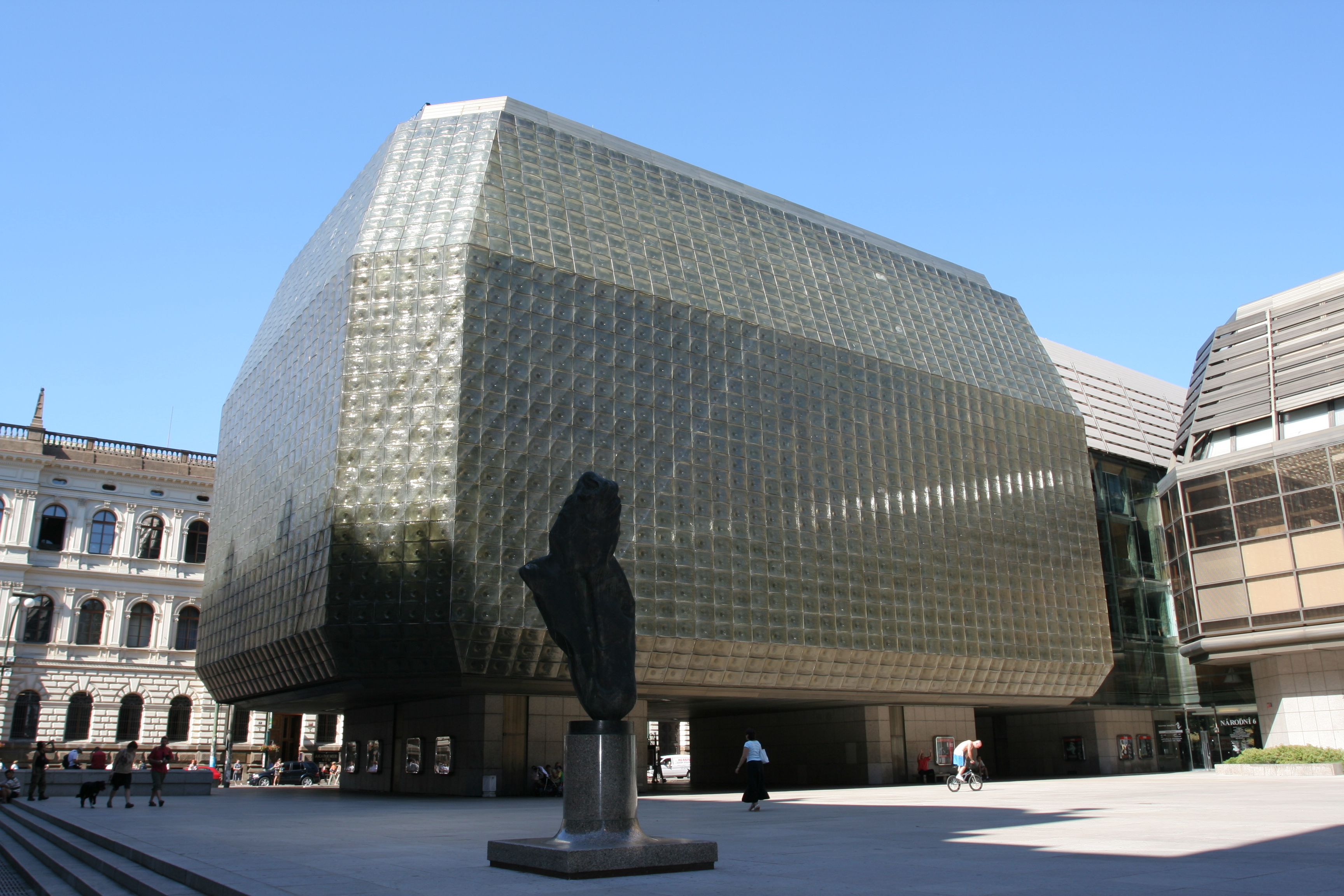 Nová scéna, home to the theater Laterna Magika